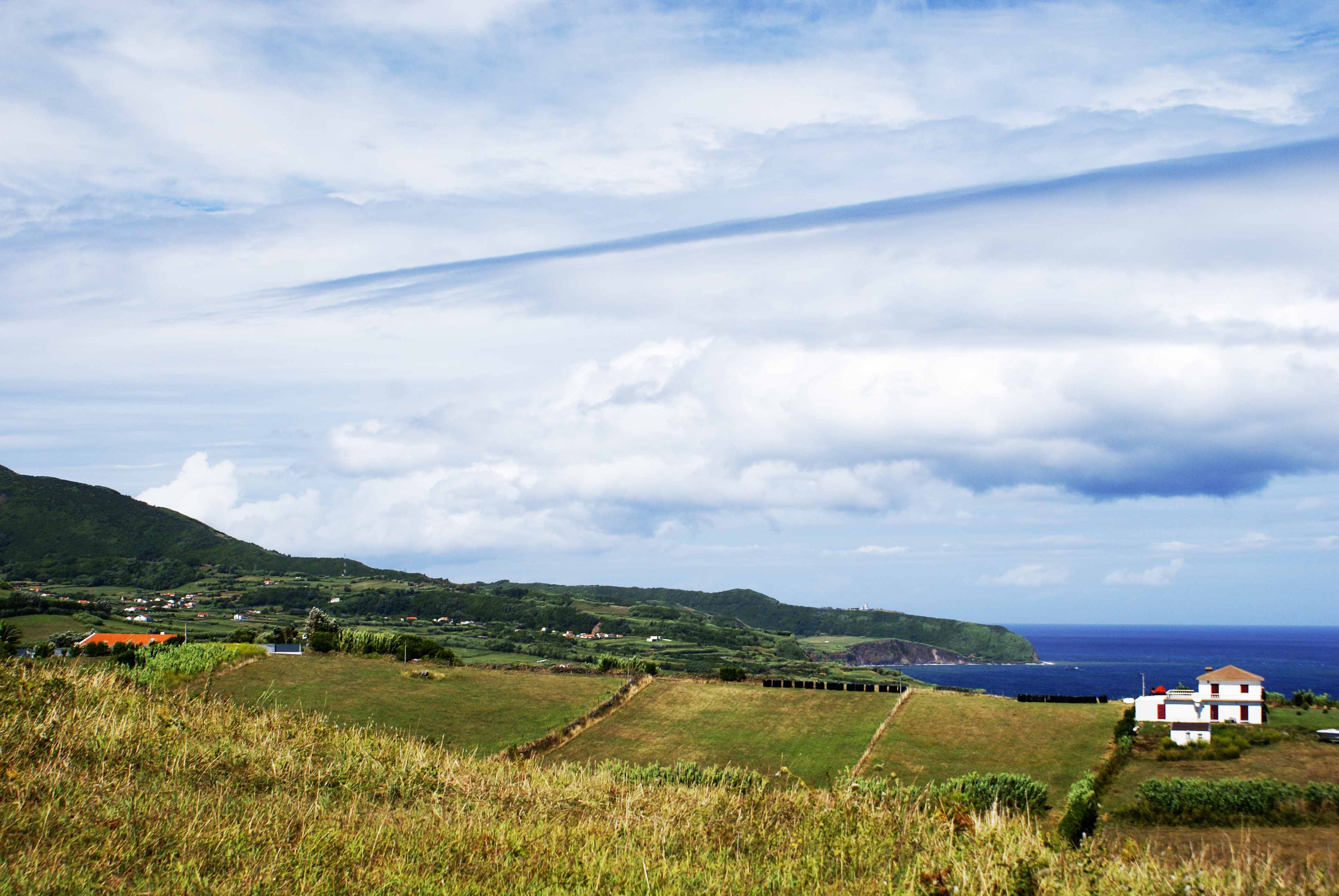 Promontório denominado Ponta de João Dias, concelho da Horta, ilha do Faial, Açores, Porttugal